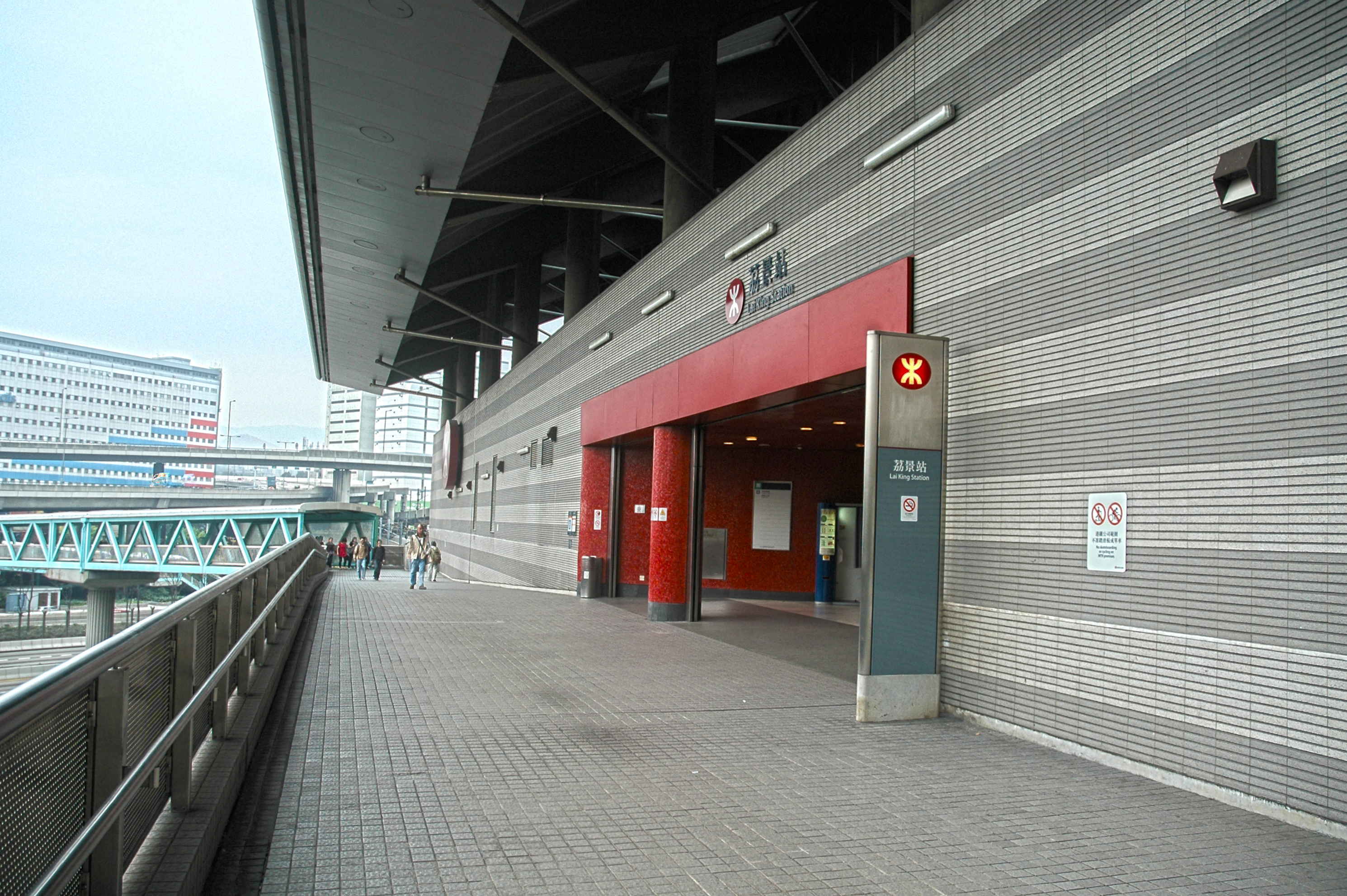 Lai King Station Exit B 中文（香港）: 荔景站B出口